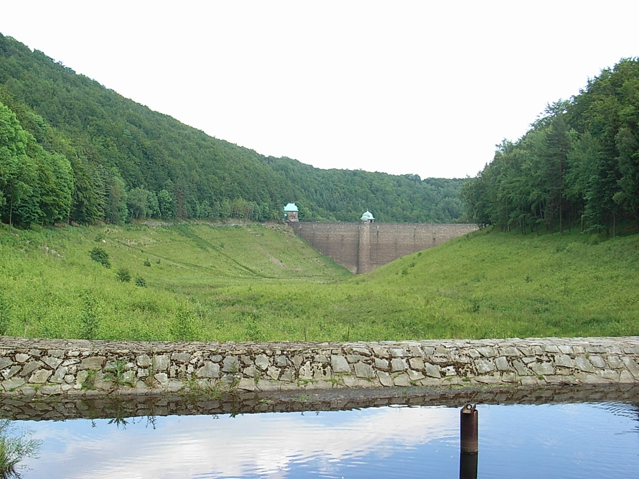 Janov dam